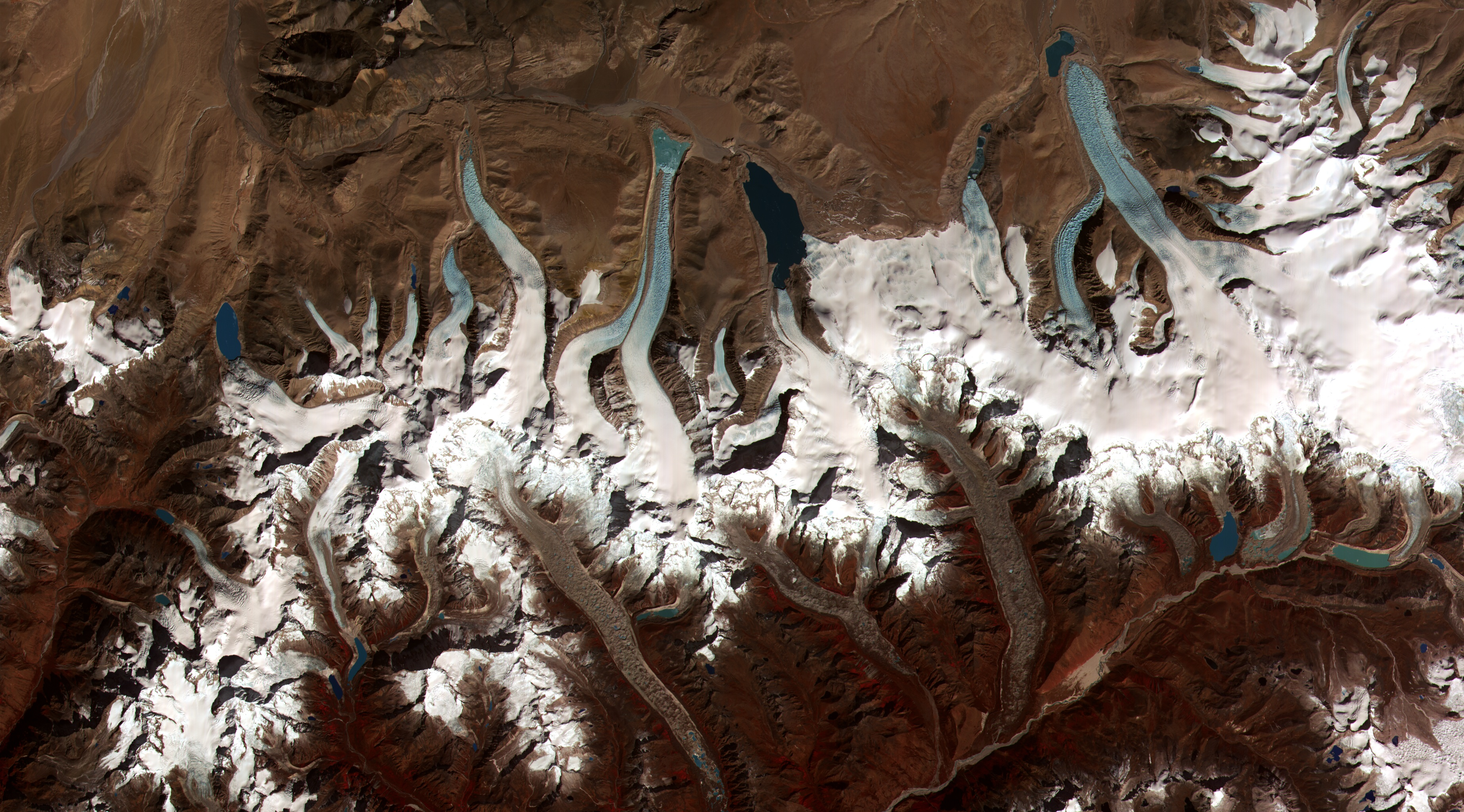 This image shows the termini of the glaciers in the Bhutan-Himalaya. Glacial lakes have been rapidly forming on the surface of the debris-covered glaciers in this region during the last few decades. USGS researchers have found a strong correlation between increasing temperatures and glacial retreat in this region. According to a joint press release issued by NASA and the U.S. Geological Survey, the great majority of the world’s glaciers appear to be declining at rates equal to or greater than long-established trends. This image from the ASTER (Advanced Spaceborne Thermal Emission and Reflection Radiometer) instrument aboard NASA’s Terra satellite shows the termini of the glaciers in the Bhutan-Himalaya. Glacial lakes have been rapidly forming on the surface of the debris-covered glaciers in this region during the last few decades. According to Jeffrey Kargel, a USGS scientist, glaciers in the Himalaya are wasting at alarming and accelerating rates, as indicated by comparisons of satellite and historic data, and as shown by the widespread, rapid growth of lakes on the glacier surfaces. According to a 2001 report by the Intergovernmental Panel on Climate Change, scientists estimate that surface temperatures could rise by 1.4°C to 5.8°C by the end of the century. The researchers have found a strong correlation between increasing temperatures and glacier retreat.